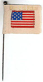 Pre-1900 peace flag (white bordered).